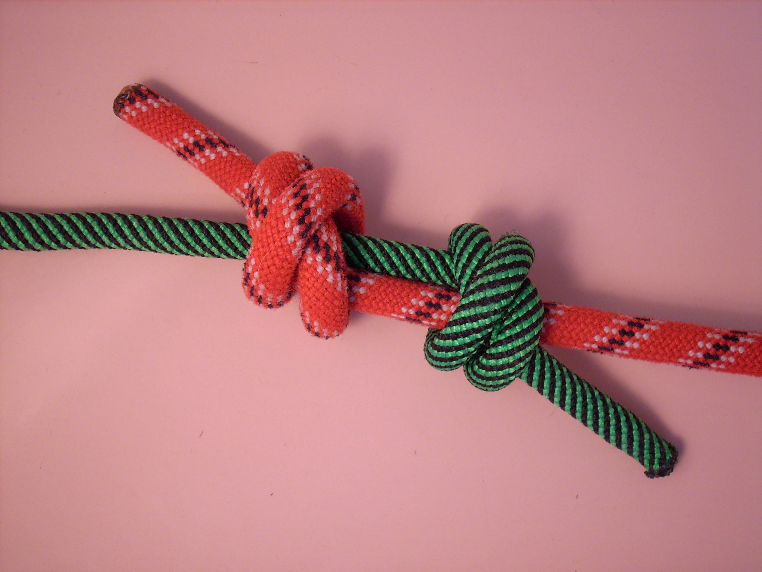 Double Fisherman's Knot, almost ready